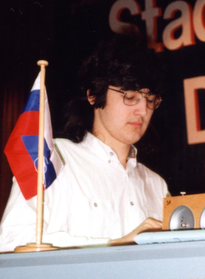 A young Vladimir Kramnik, 1993